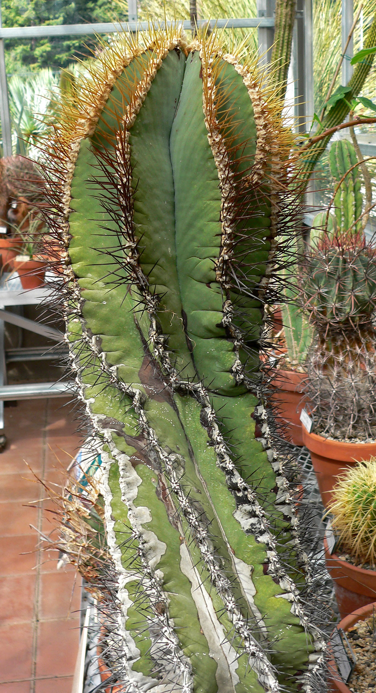 Astrophytum ornatum var. glabrescens at the University of California Botanical Garden, Berkeley, California